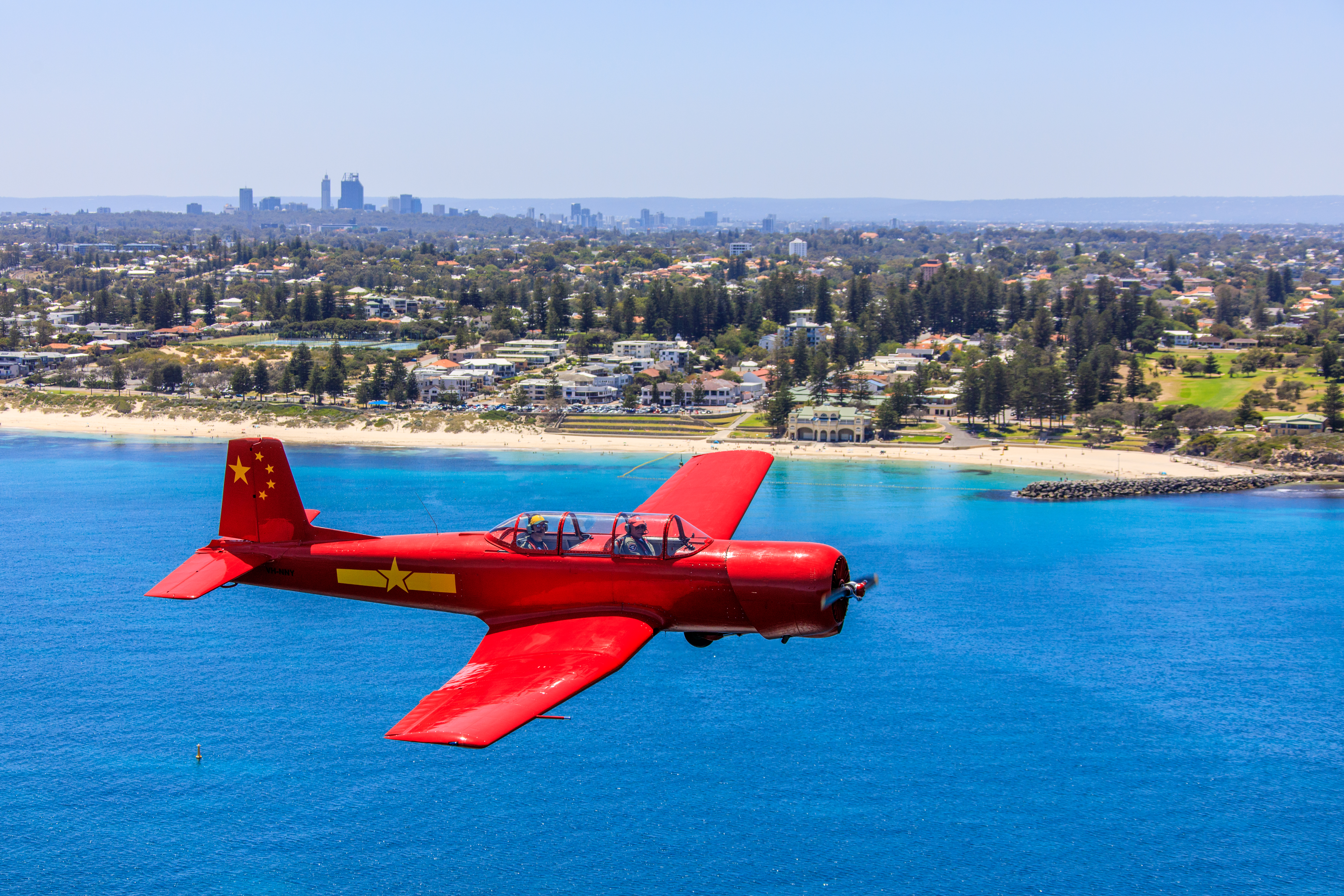 Aerial photograph of Nanchang CJ6A serial number 3051211 VH-NNY near Cottesloe Beach Perth Warbirds